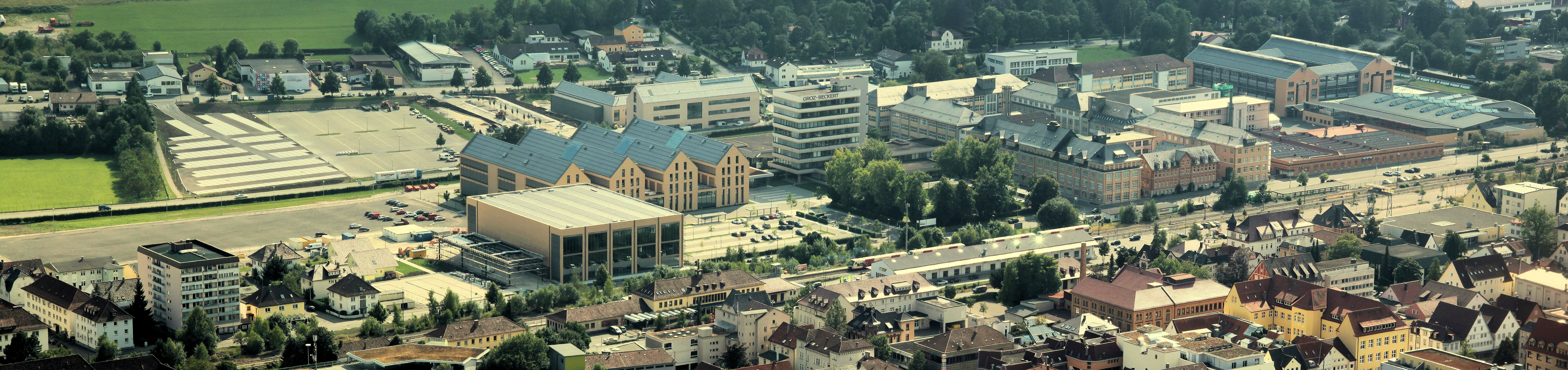 Albstadt-Ebingen: Groz-Beckert (view from Schlossfelsenturm)